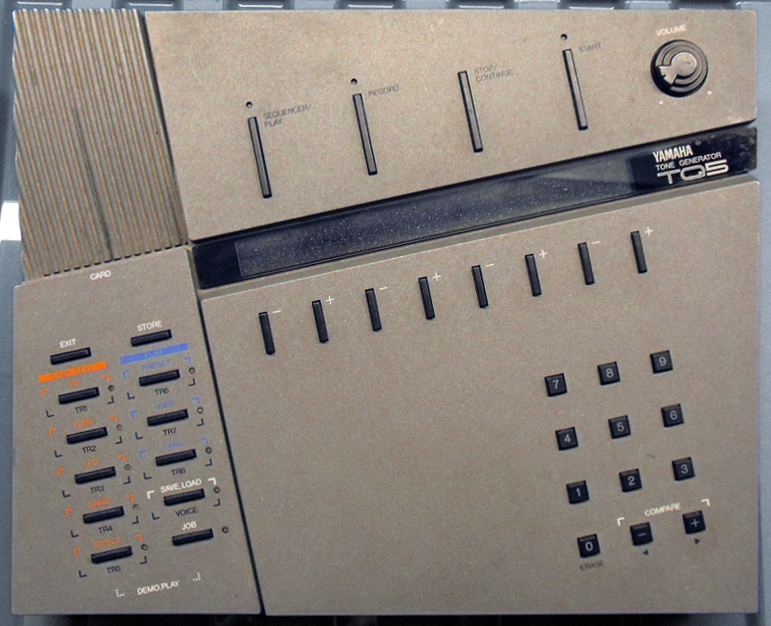 Yamaha TQ5 Tone Generator desktop module version of EOS YS200 (4op FM/8parts multi-timbral sound module + 8track sequencer)